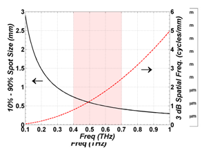 show resolution changing